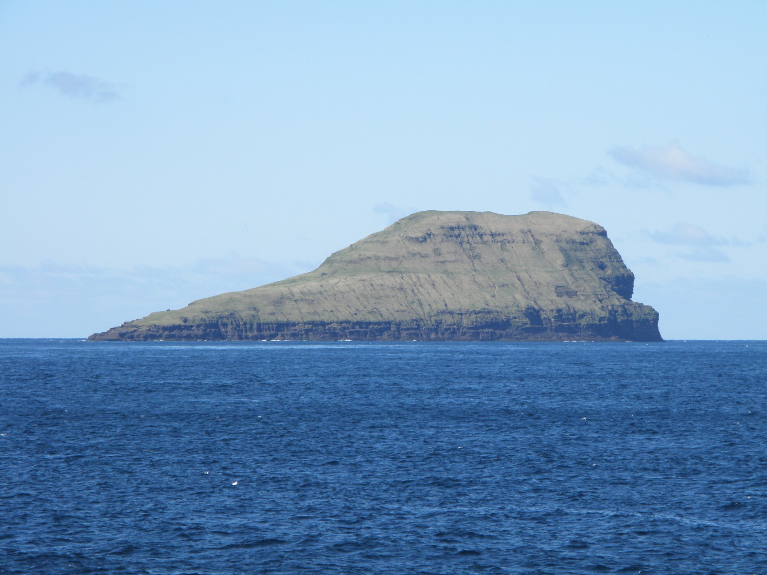 Trøllhøvdi means Troll's Head. It is an islet in the Faroe Islands, located north of Sandoy, near the village Skopun. The islet is 19 acres (ha), the highest point is 160 metres, the lenght is 850 m and it is 320 m wide on the widest place. For many generations it has belonged to the villagers of Kirkjubøur, which is a village on the south-east Streymoy. Kirkjubøur is now a part of Tórshavn Municipality. This photo was taken from the ferry Smyril on route between Suðuroy and Tórshavn on 2 May 2010.Føroyskt: Trøllhøvdi er ein hólmur í Føroyum, sum liggur norðanfyri Sandoynna. Hólmurin hoyrir til Kirkjubø. Myndin er tikin av Smyril á veg millum Suðuroynna og Havnina. Víddin er 19 ha. Hægsta punkt er 160 m. Longdin er gott 850 m., og á tí breiðasta er Trøllhøvdi um 320 m.